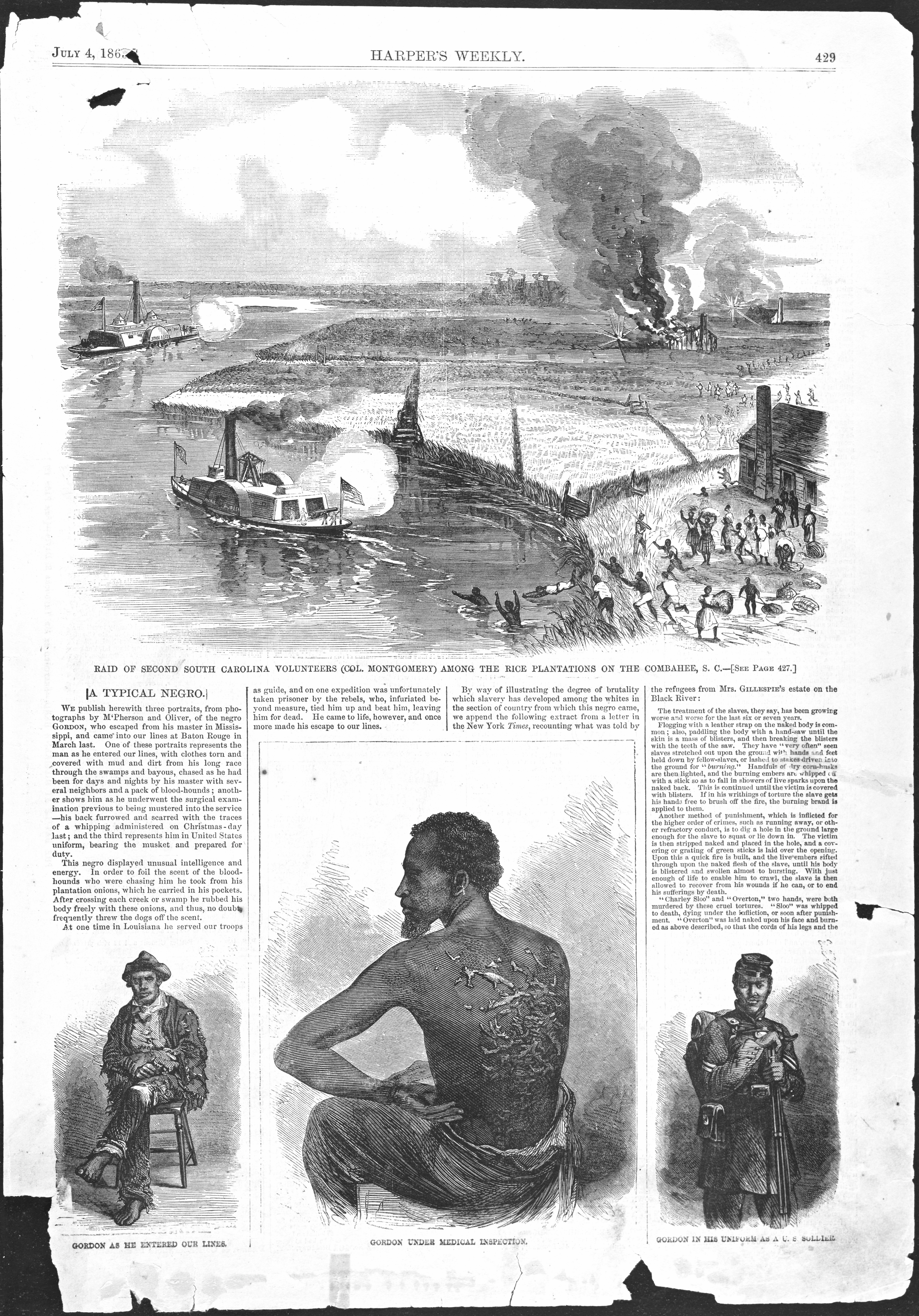 Harper‘s Weekly, vol. VII, no. 340, 4 July 1863, p. 429. The lower half of this page shows wood engravings after pictures by McPherson & Oliver of Gordon, also named »Whipped Peter«.